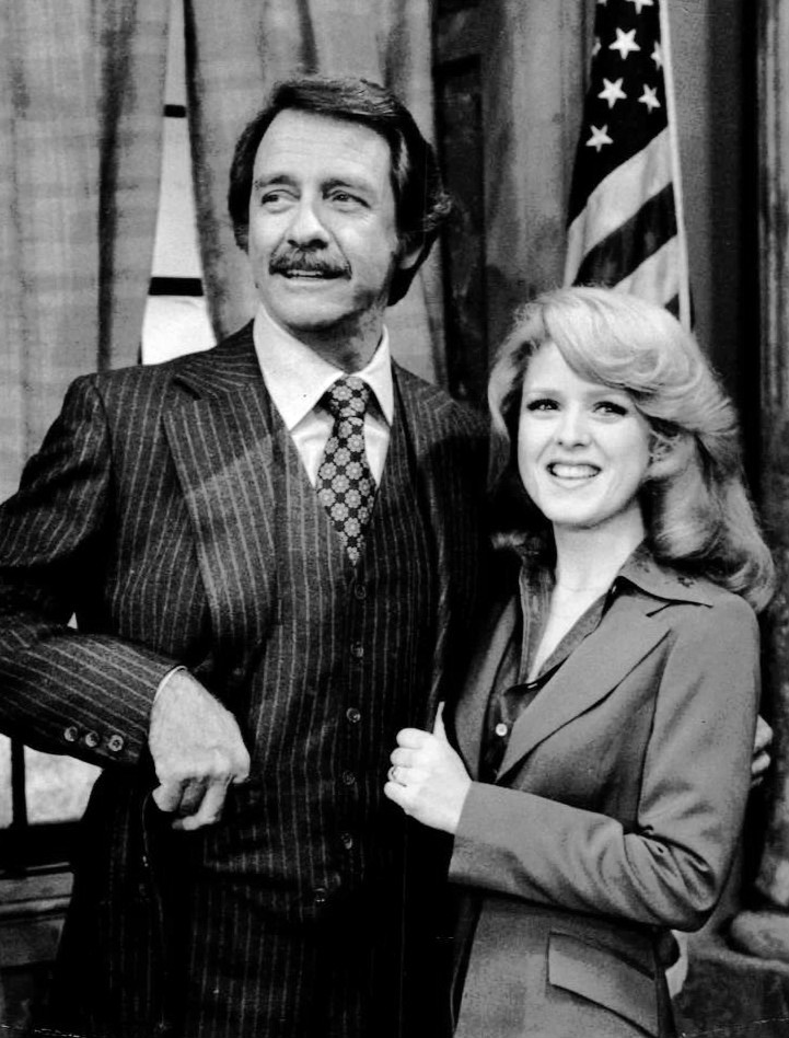 Photo of Richard Crenna as Richard Barrington and Bernadette Peters as Charlotte (Charley) Drake from the television program All's Fair.